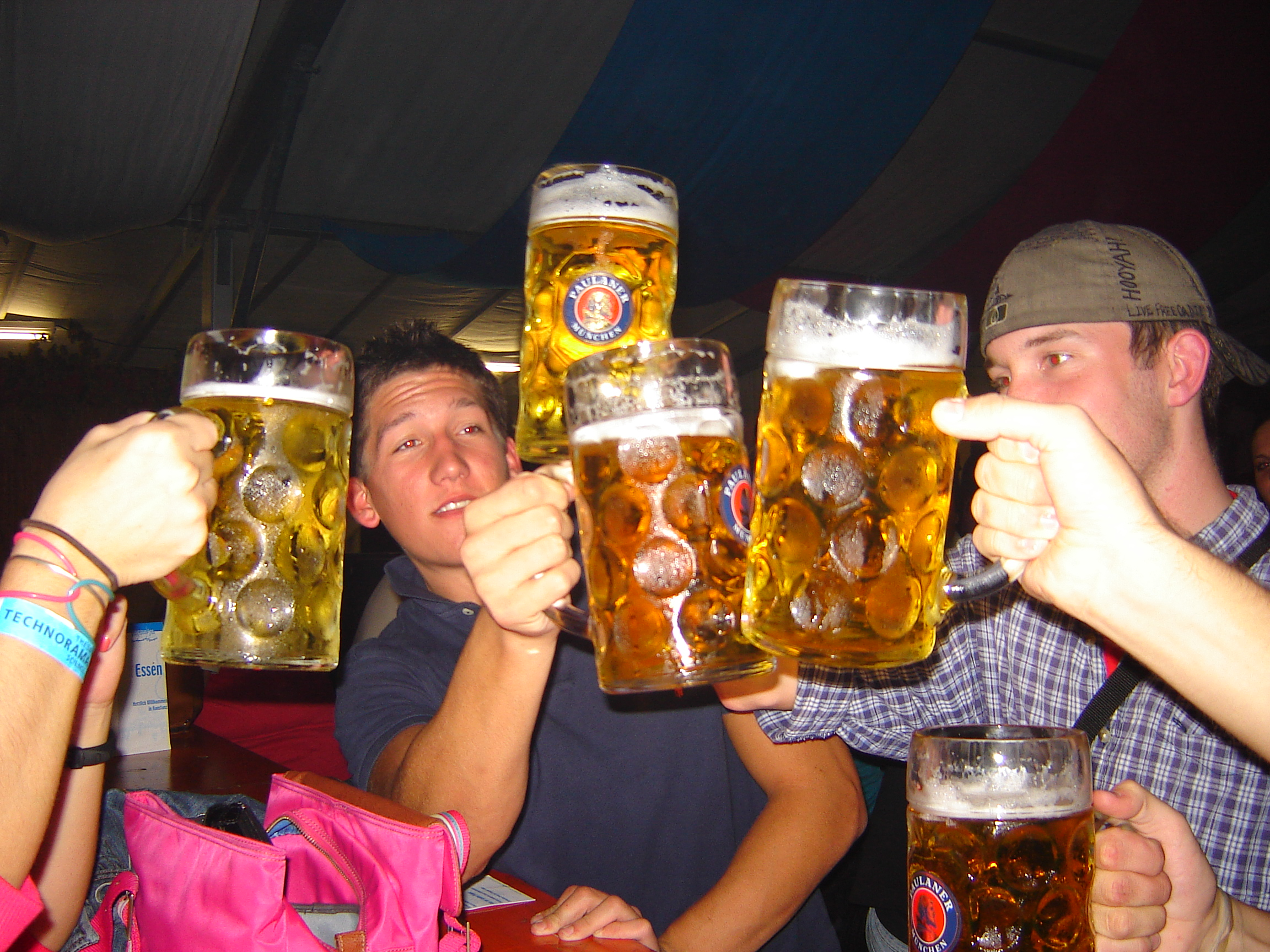 Friends toasting at the Constance Oktoberfest - cheers!